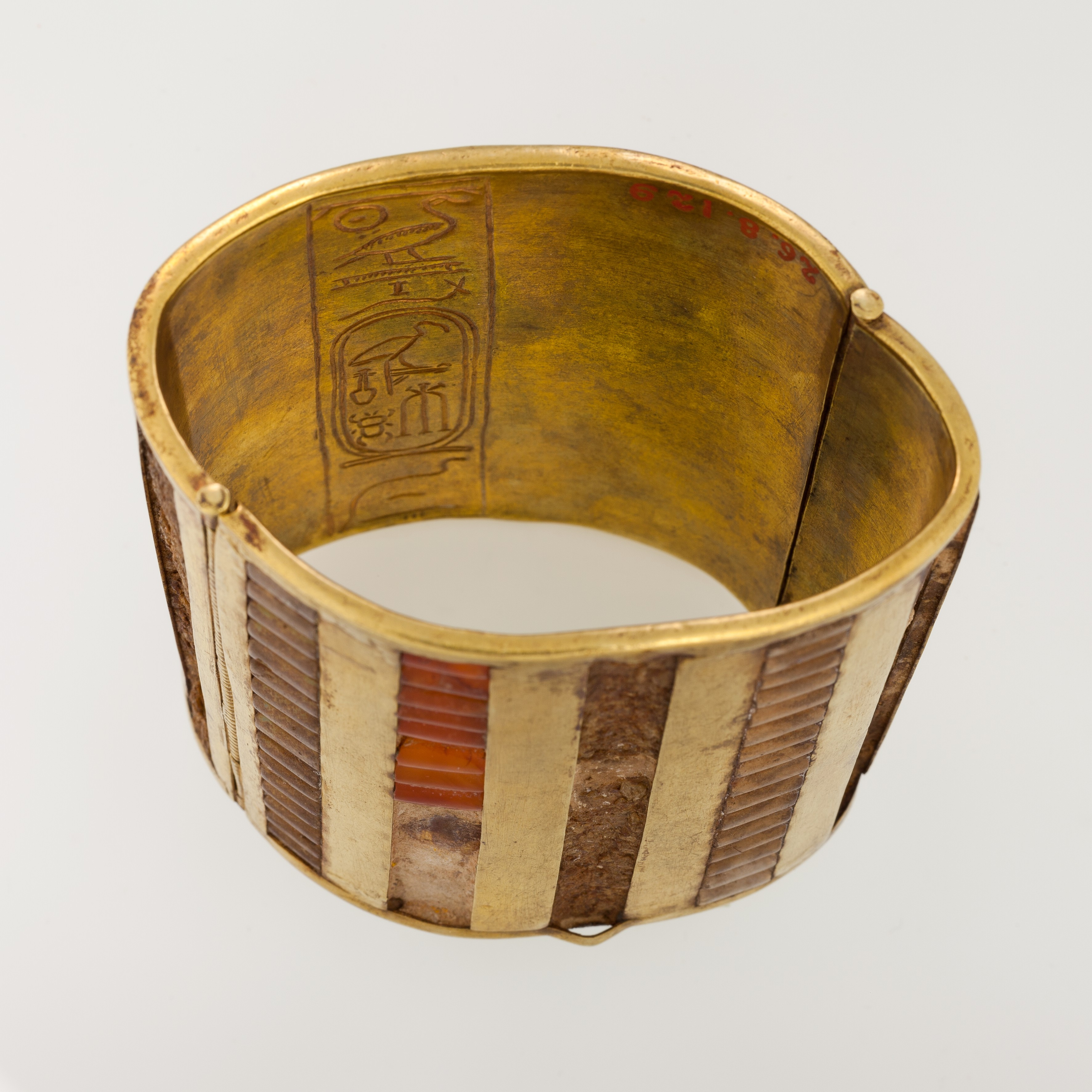 Hinged cuff bracelet with name of Thutmose III on the inside